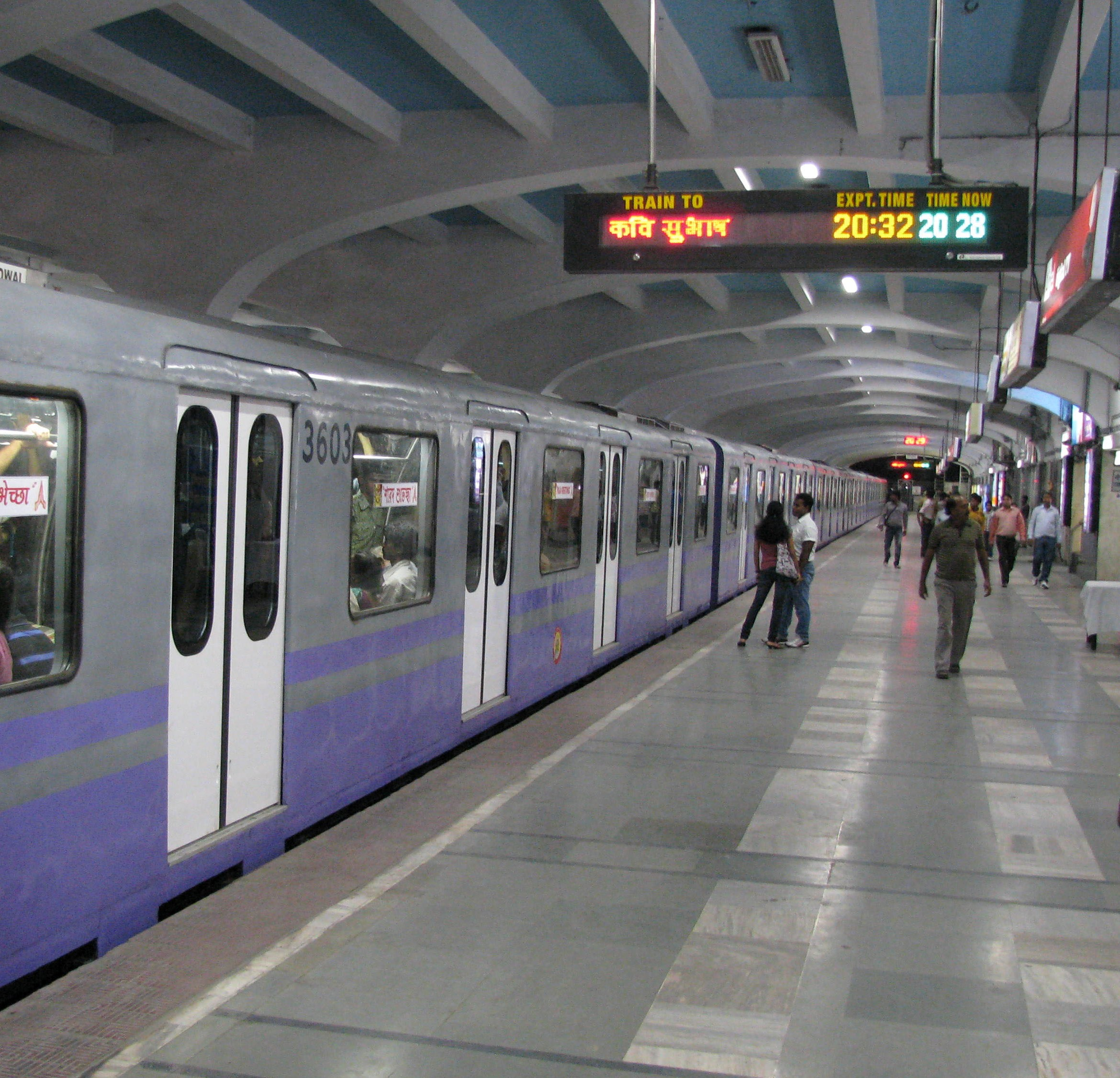 Kolkata Metro is India's oldest metro system